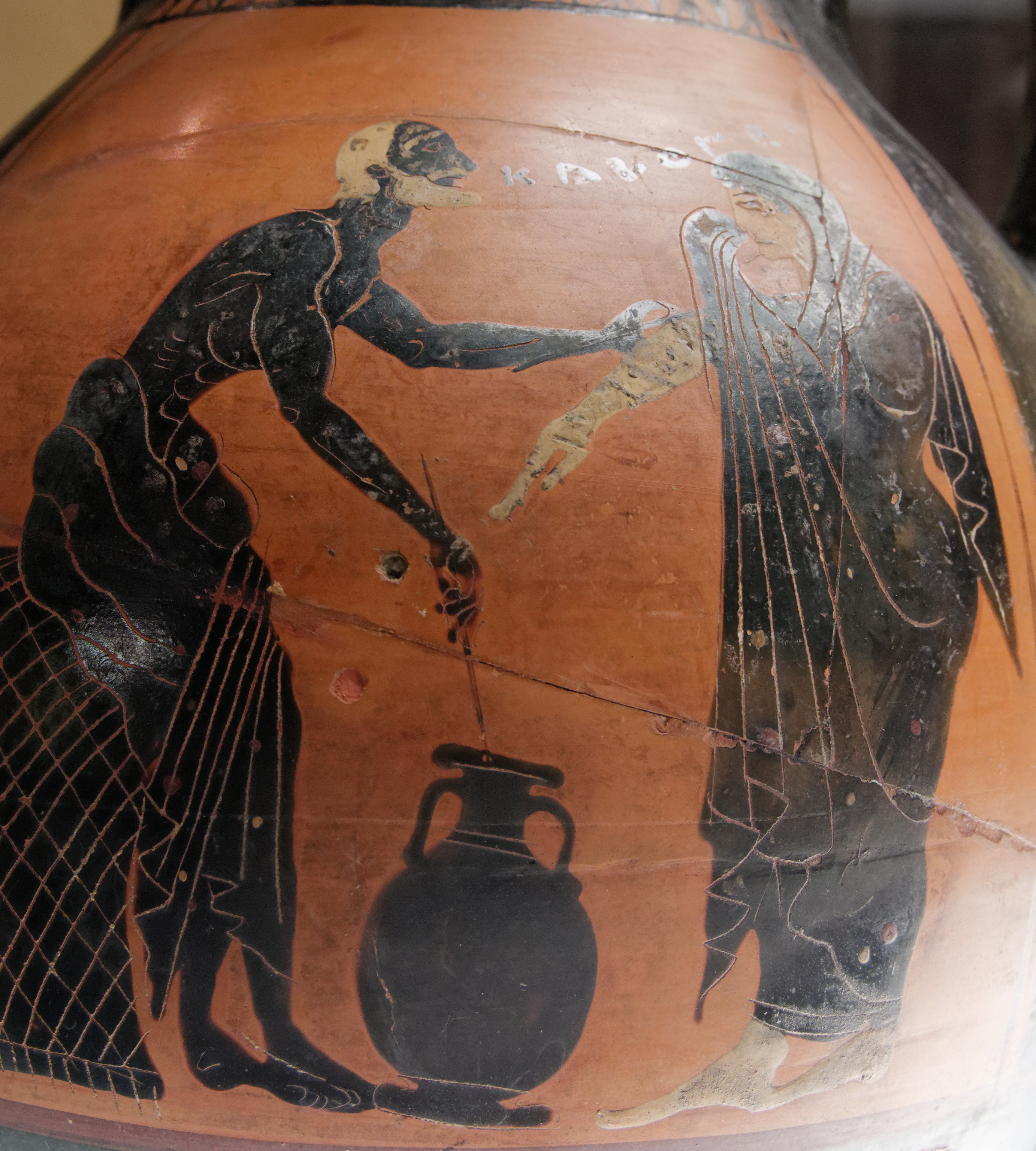 The sale of oil, side A of an Attic black-figure pelike.